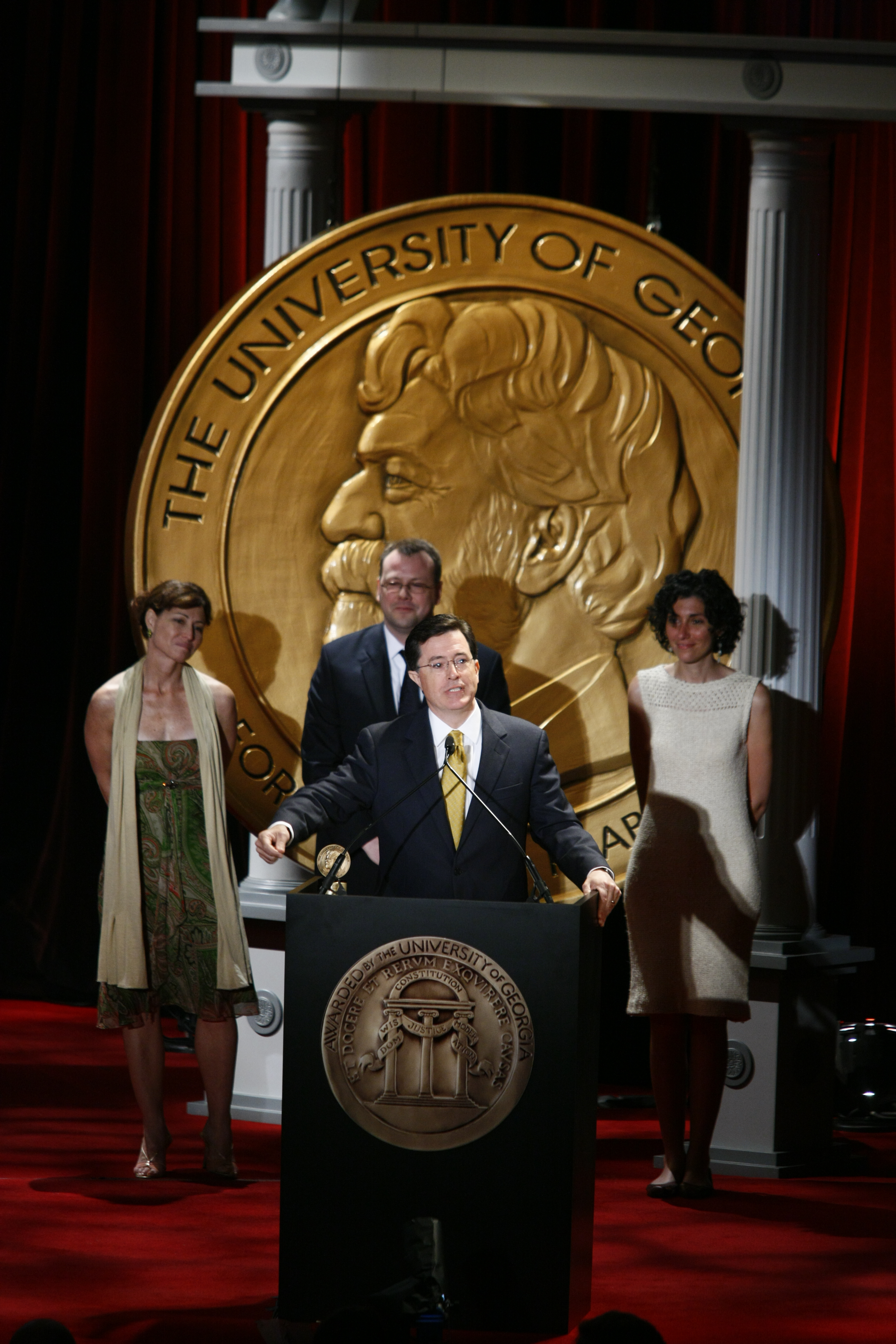 PHOTO CREDIT: ANDERS KRUSBERG / PEABODY AWARDS Meredith Bennett, Rich Dahm, Stephen Colbert and Allison Silverman 67th Annual Peabody Awards Luncheon Waldorf=Astoria Hotel New York, NY USA June 16, 2008